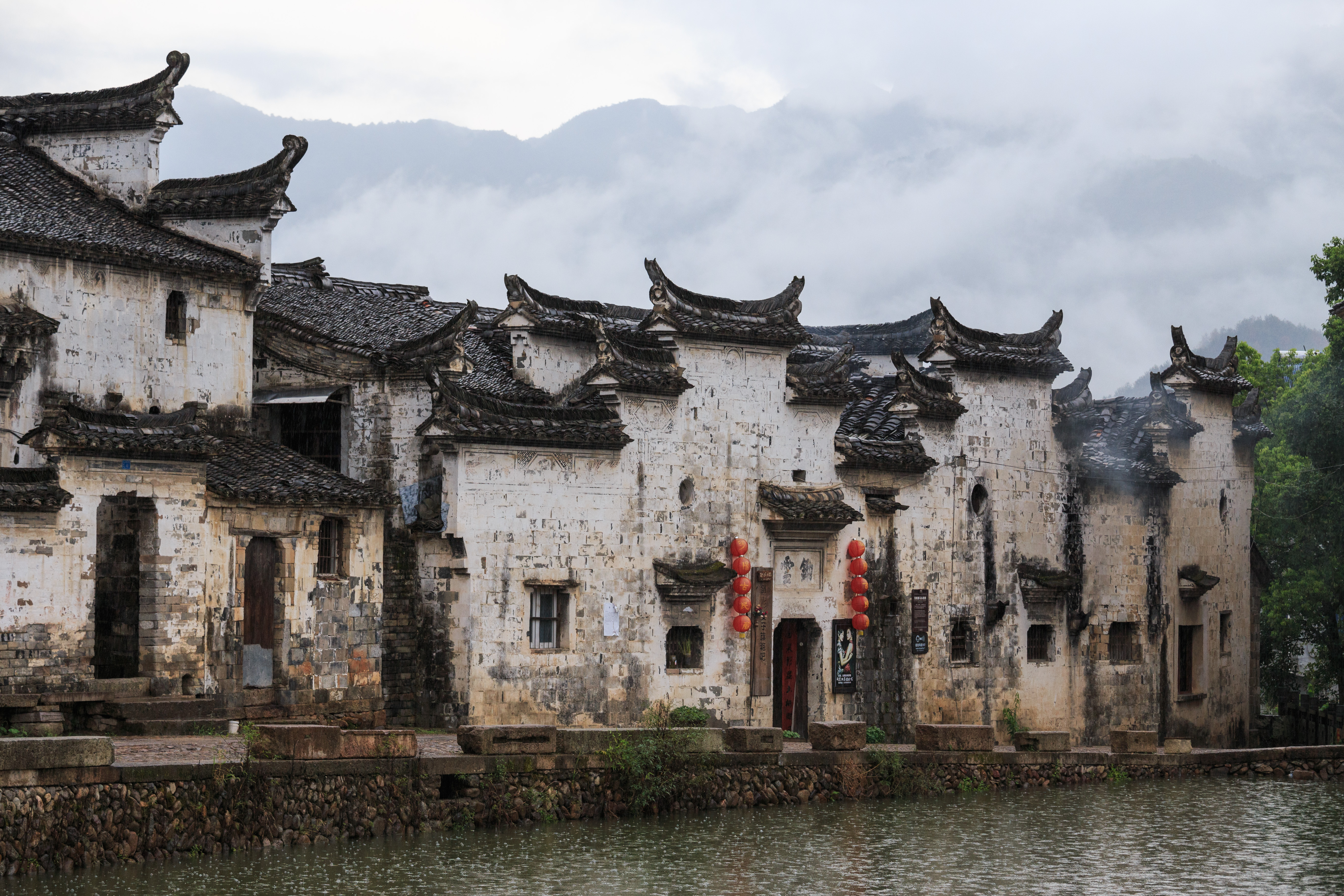 Heyang village, Zhejiang Province